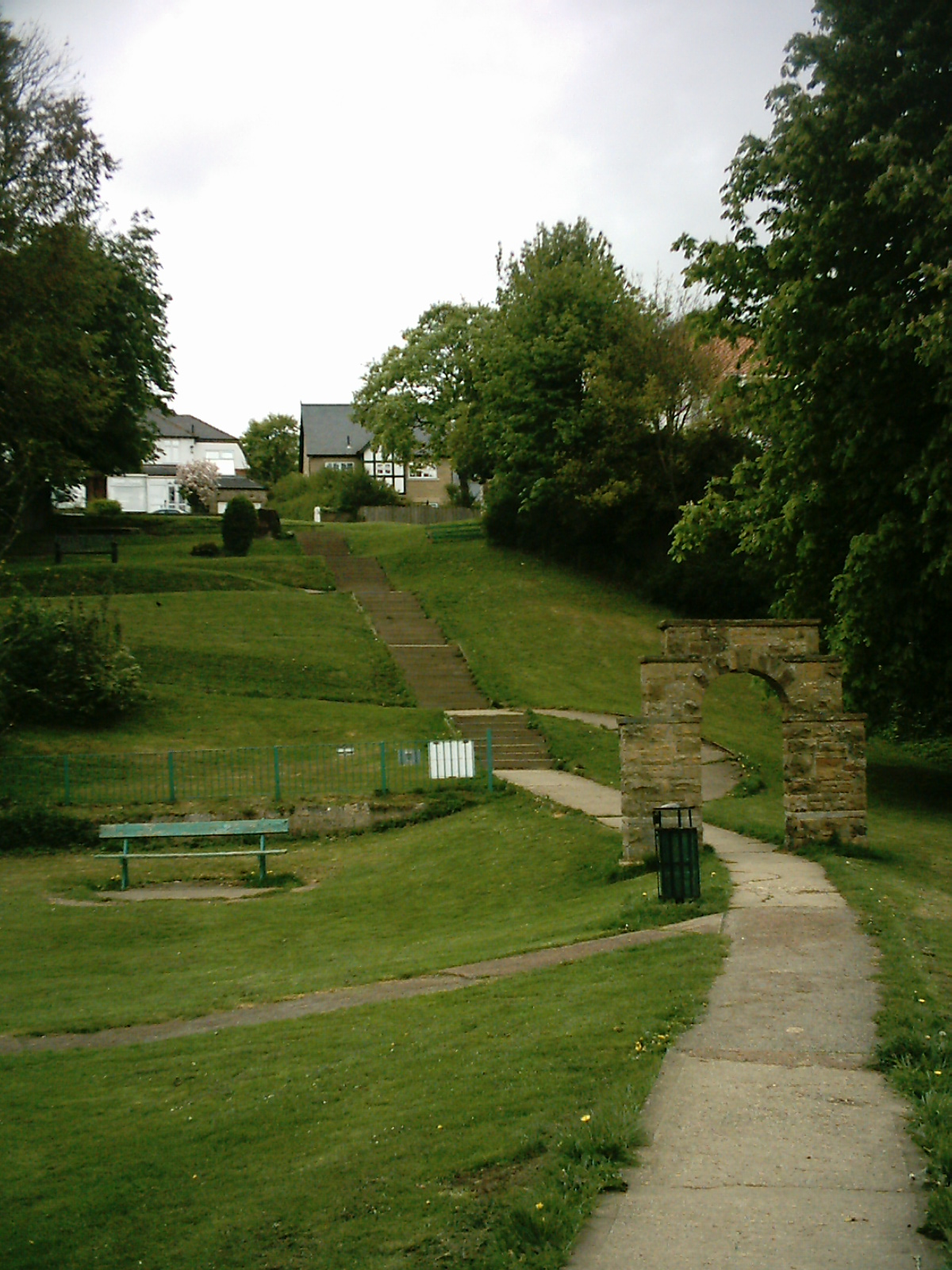 Access to King George's field, The Ings, Wetherby, Leeds, West Yorkshire, UK. Taken on the evening of Thursday 30th April 2009